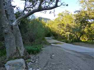 A view into the heart of De Luz. De Luz Murrieta Road, San Diego County, California